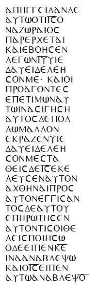 A Greek column of the codex in Luke 18:15-16 in Codex Borgianus (facsimile